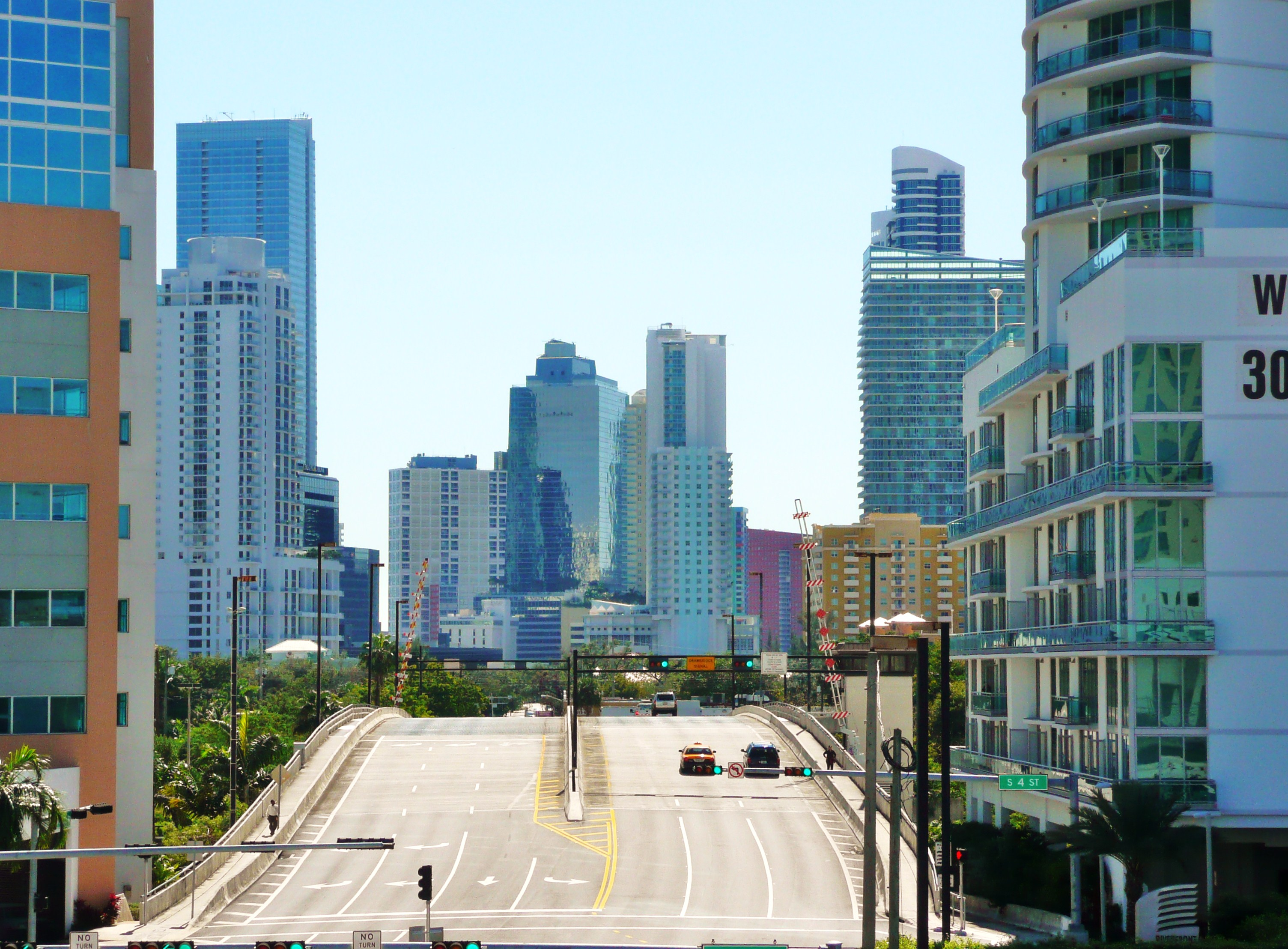 Digital photo taken by Marc Averette. Miami Avenue as seen from just north of the Miami River in Downtown Miami, Florida, United States.